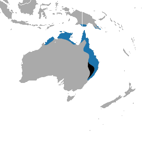 Northern Brown Bandicoot (Isoodon macrourus) range (blue — extant, black — extinct)